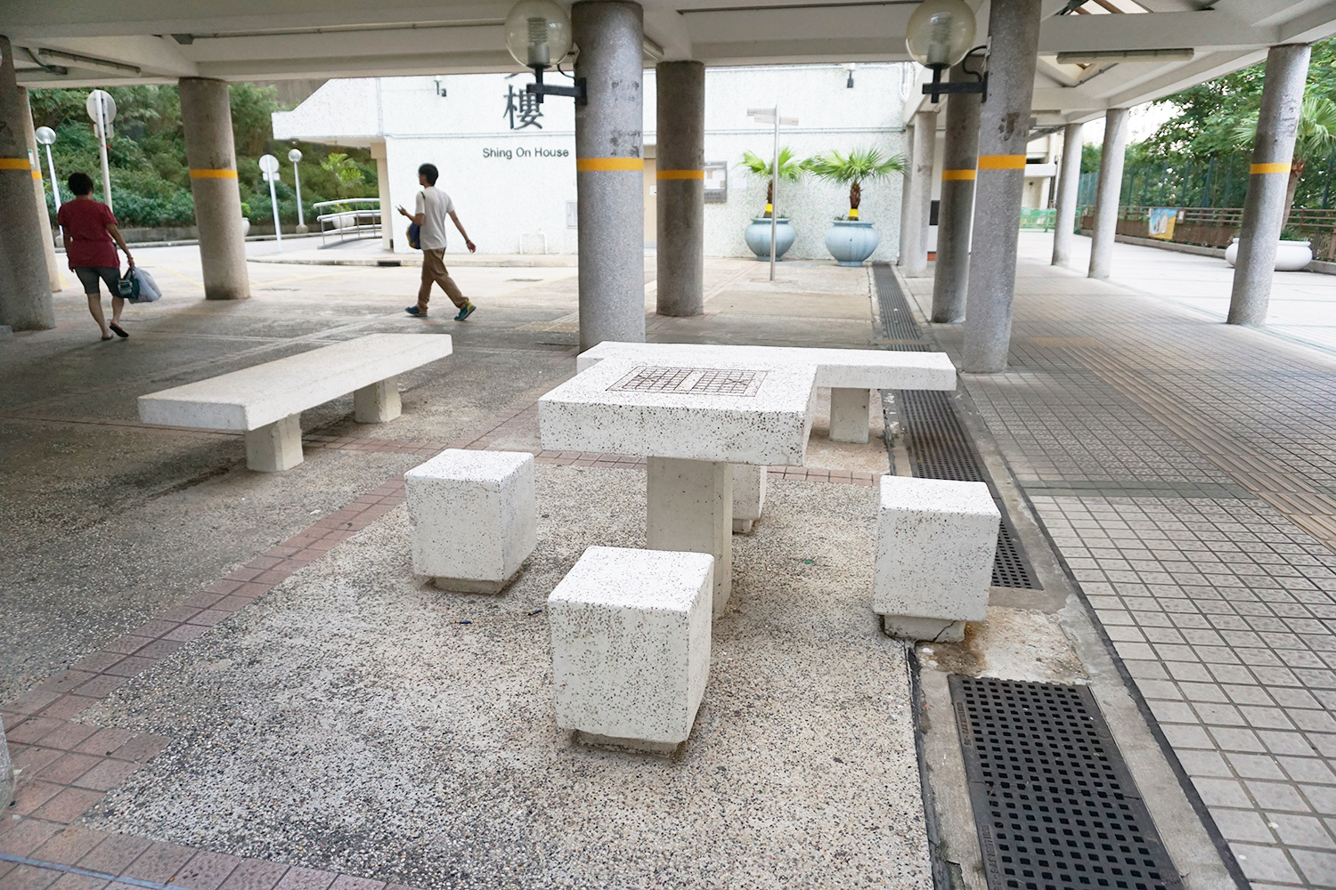 Kwai Shing East Estate in Kwai Shing, Hong Kong.